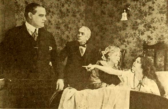 Still from the American film Reclaimed: The Struggle for a Soul Between Love and Hate (1919) with Anders Randolf and Mabel Julienne Scott (and two actors in the background unidentified), on page 1187 of the March 1, 1919 Moving Picture World.